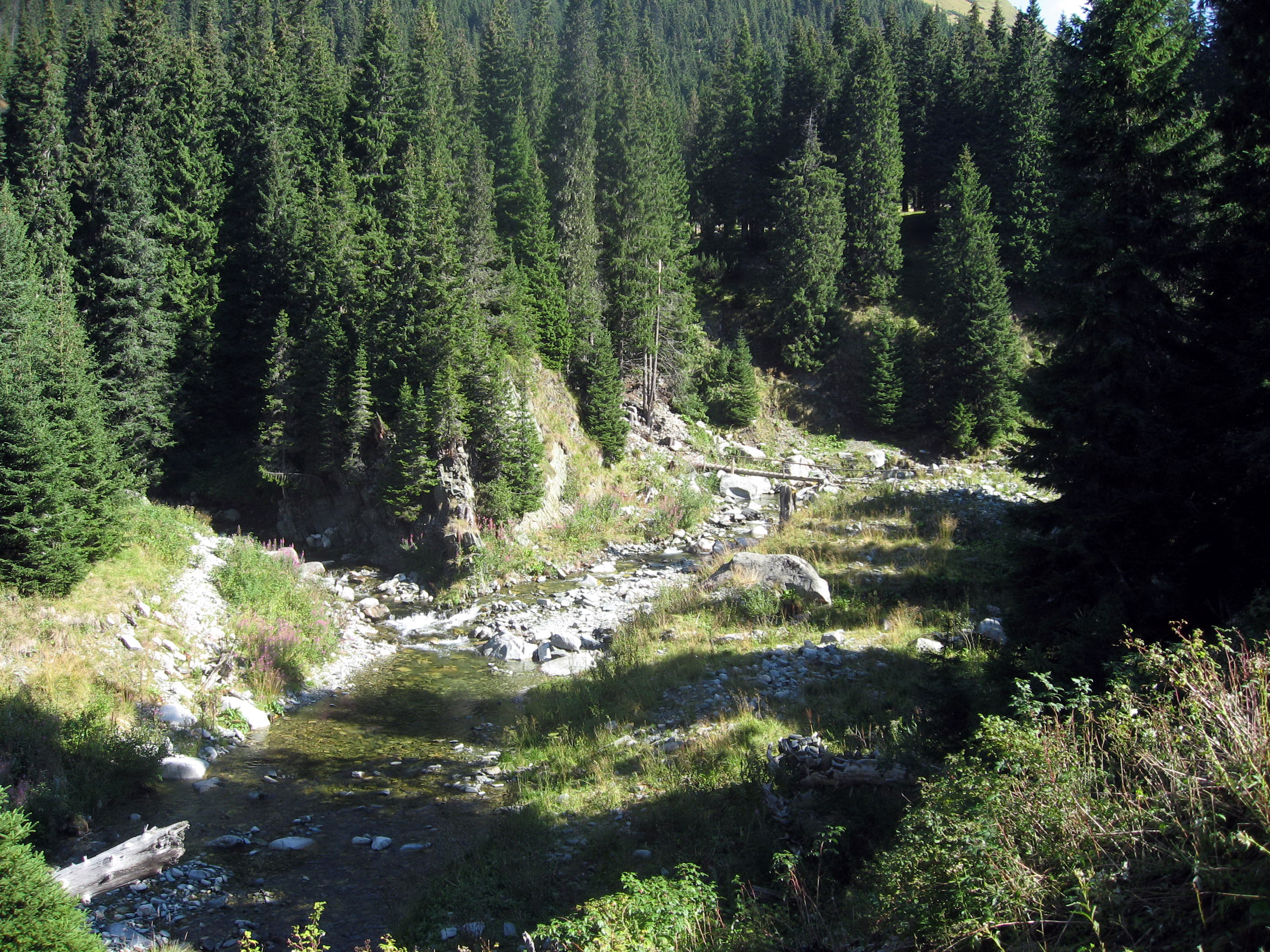 Retezat, Romania. Trees are Picea abies.